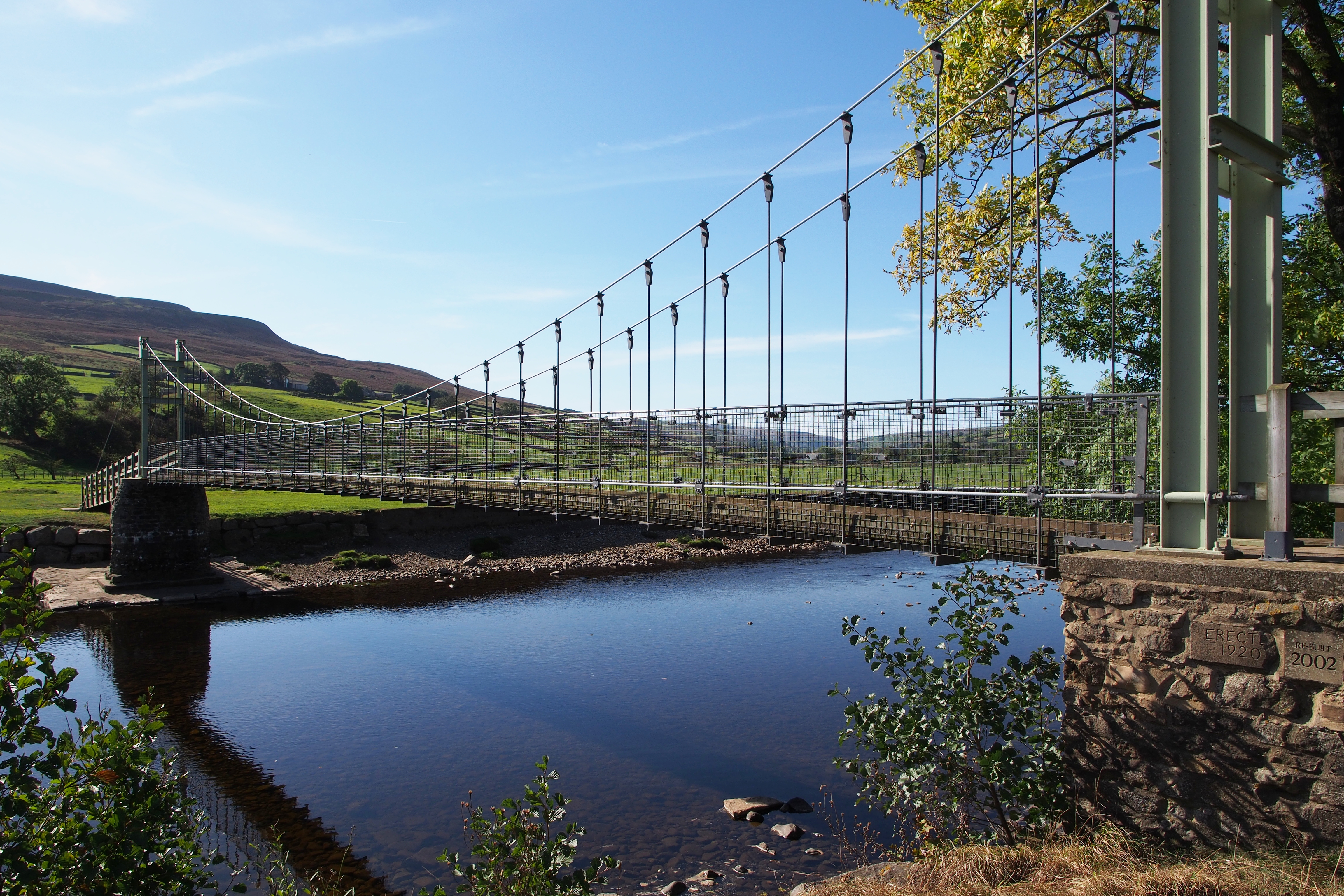 Reeth Swing Bridge, from northern end